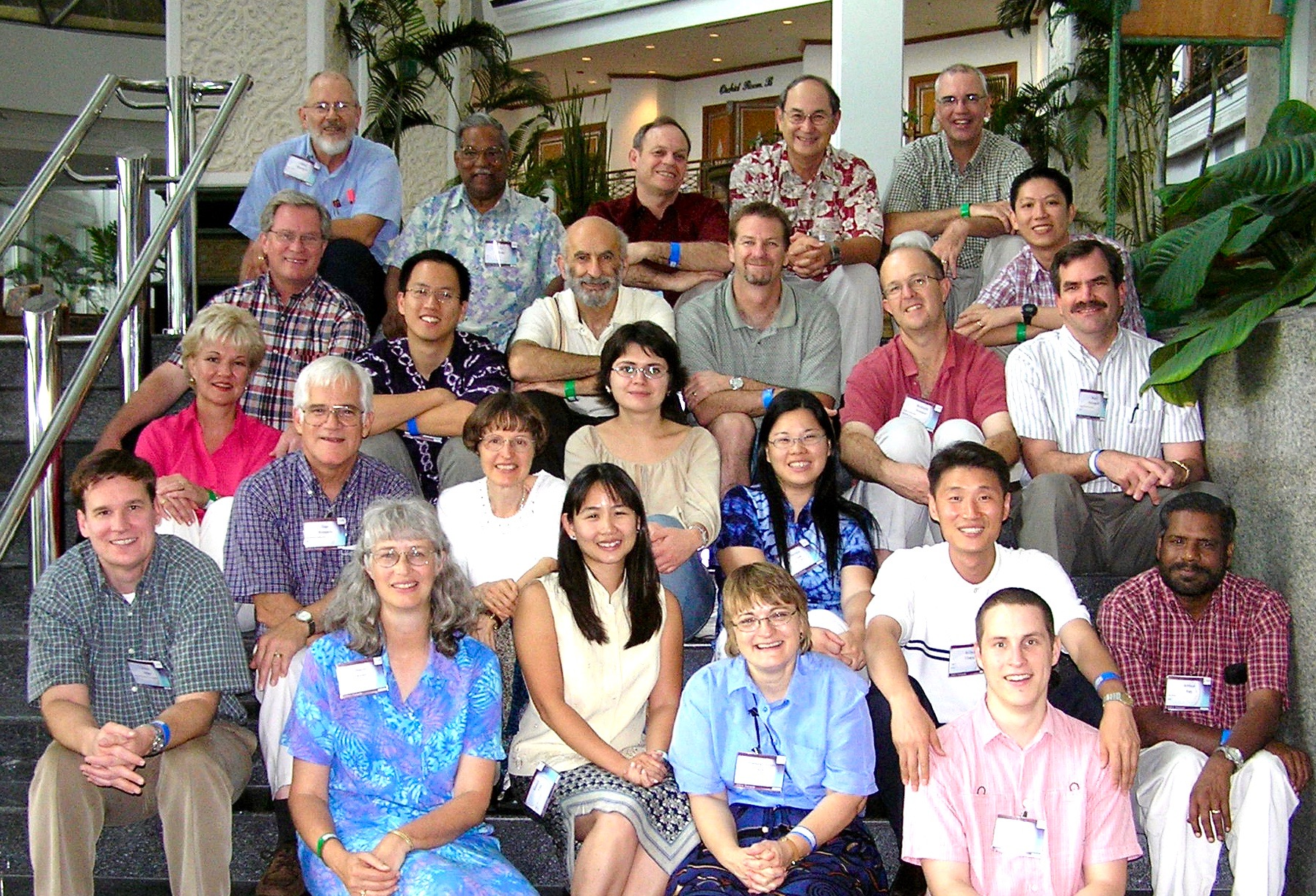 Lausanne ISM Issue Network Leaders Forum 2004, Thailand. Used in International student ministry